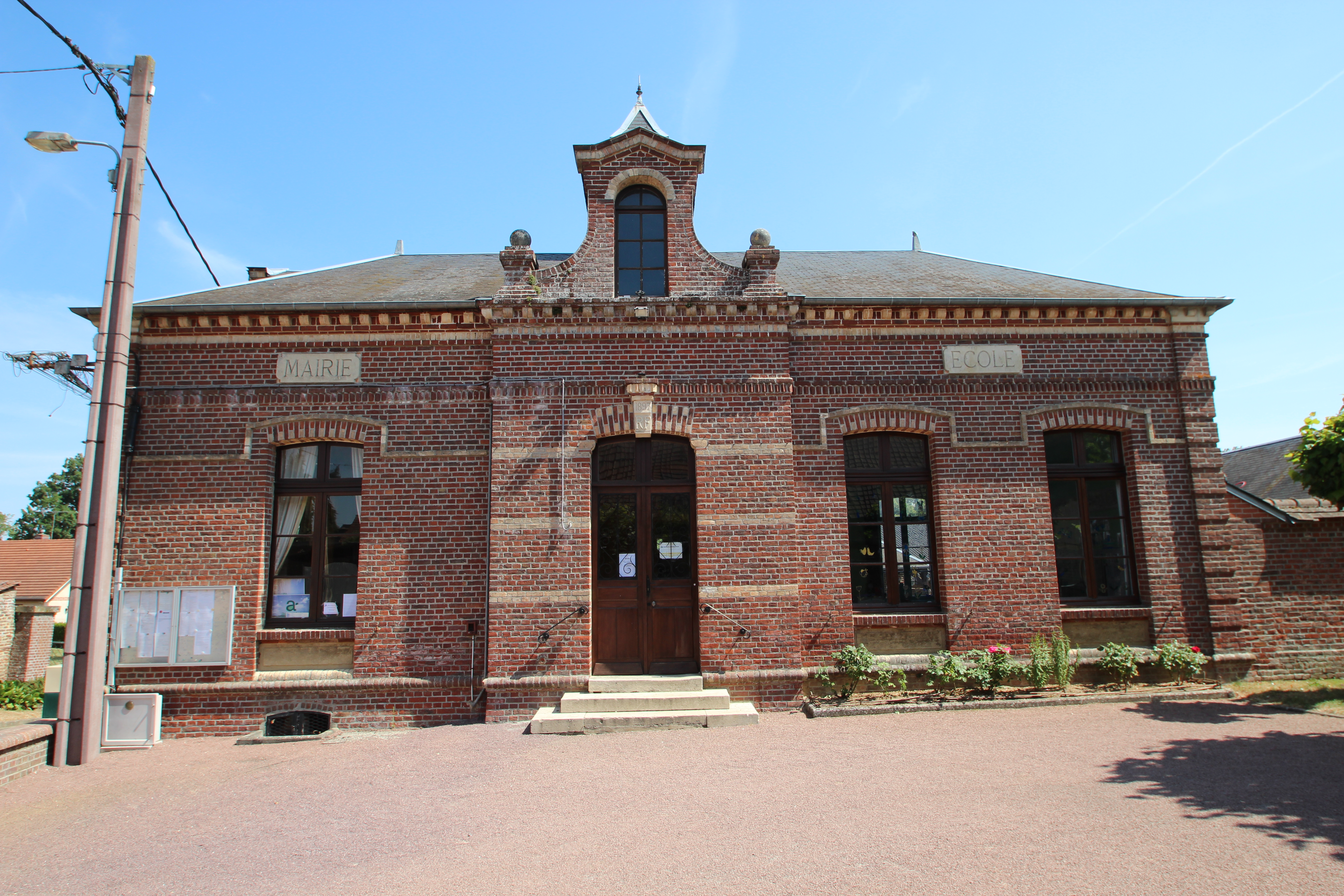 Town hall of Fontaine-Saint-Lucien, France This image was uploaded as part of L'Été des villes 2015.